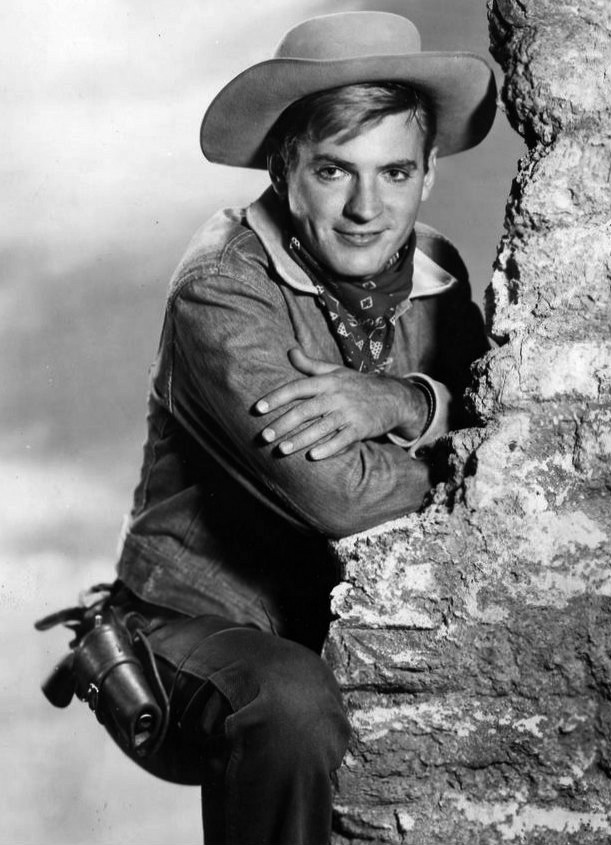 Publicity photo of Will Hutchins from the television program Sugarfoot.